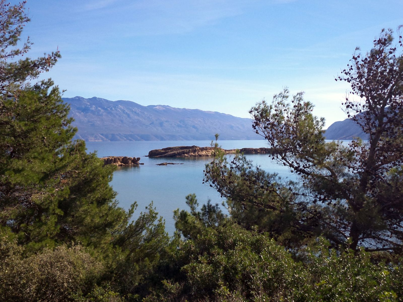 Lopar East - look at the small island Kaštelina